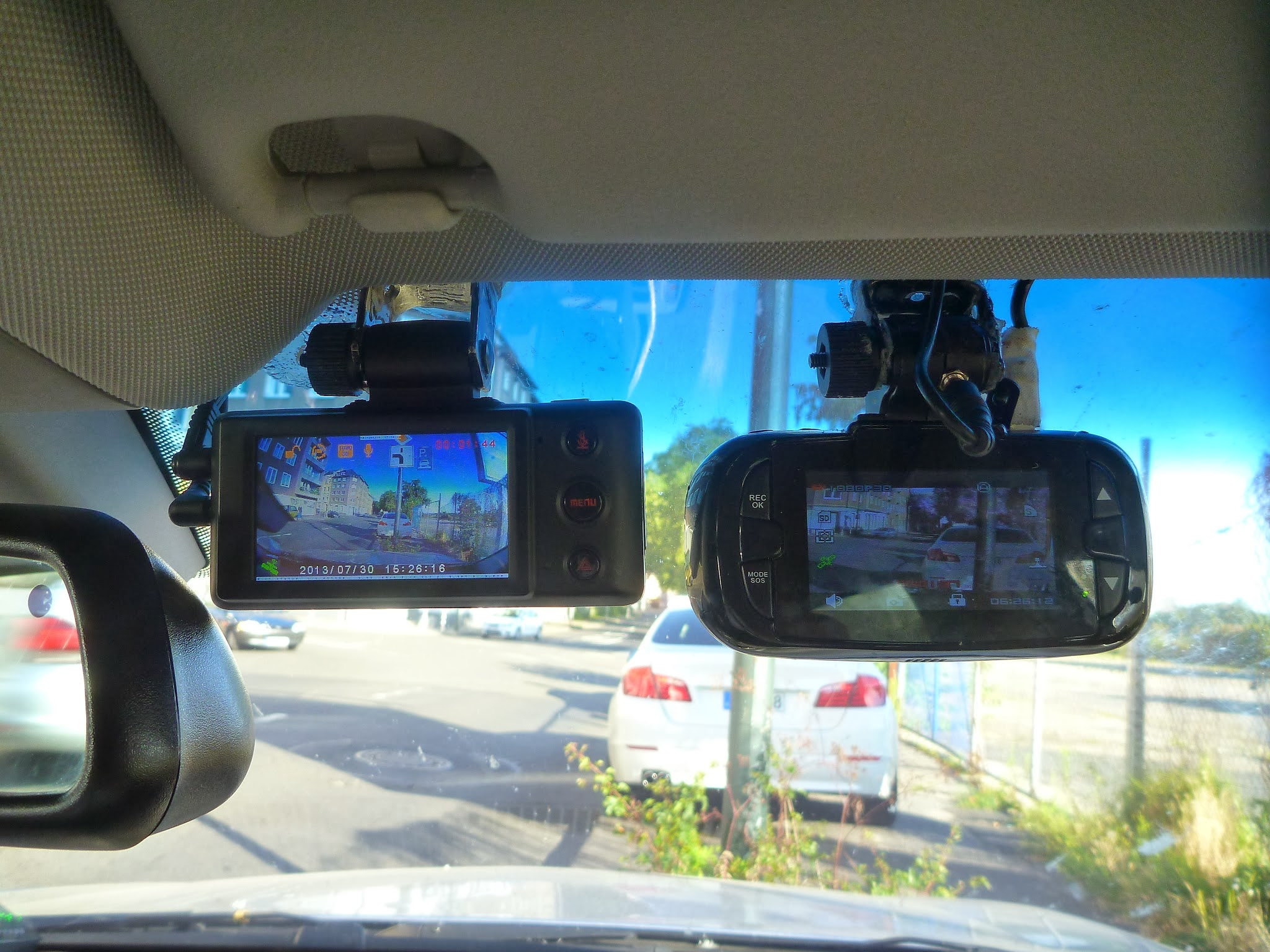 Dashcams